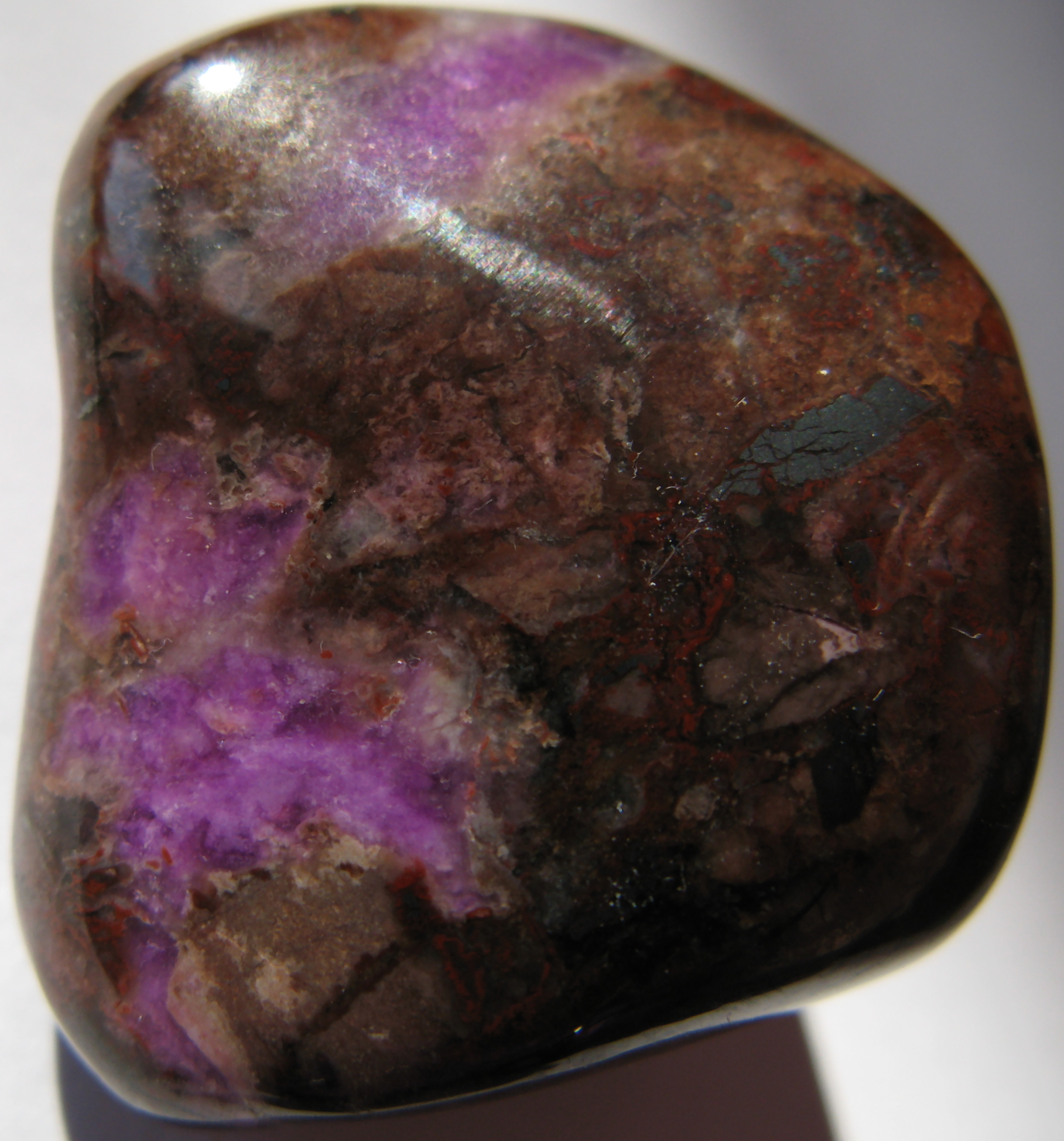 Sugilite - Silicon-mineral from Southafrica